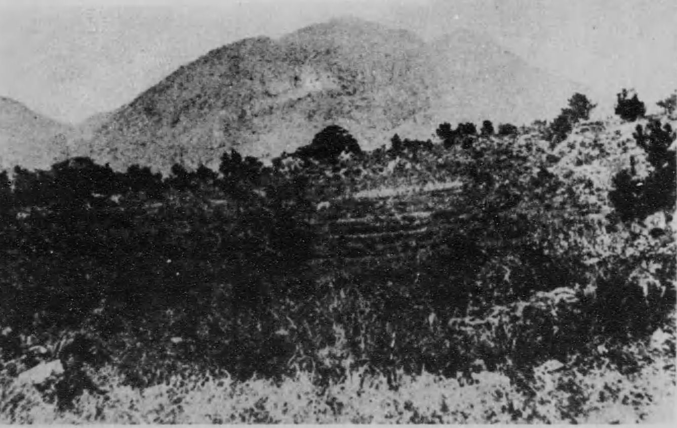 Mount Katsuu